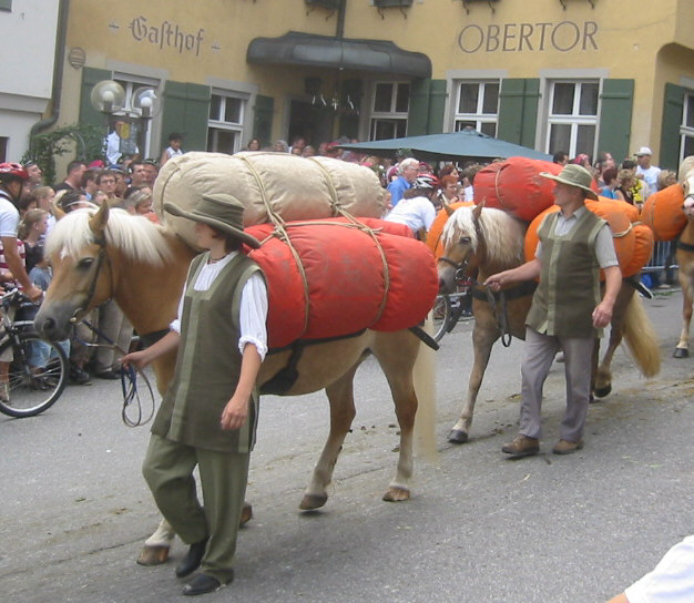 Transport by the Große Ravensburger Handelsgesellschaft medieval trading society Re-enactment at the annual Rutenfest festival parade in Ravensburg, Germany, 2004